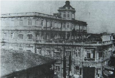 Yu Qing Chi